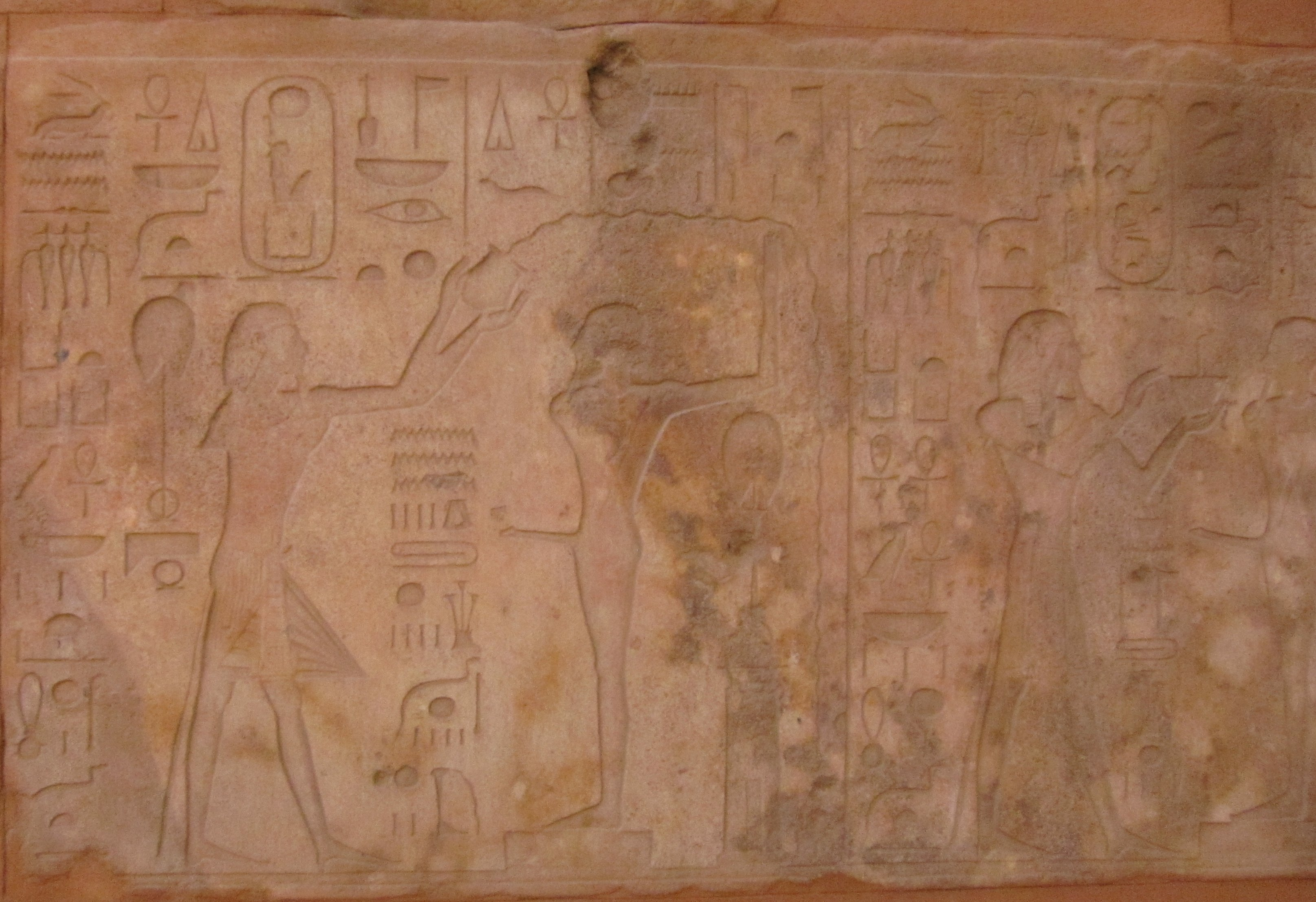 Reliefs on the Red Chapel of Hatshepsut in Karnak temple complex